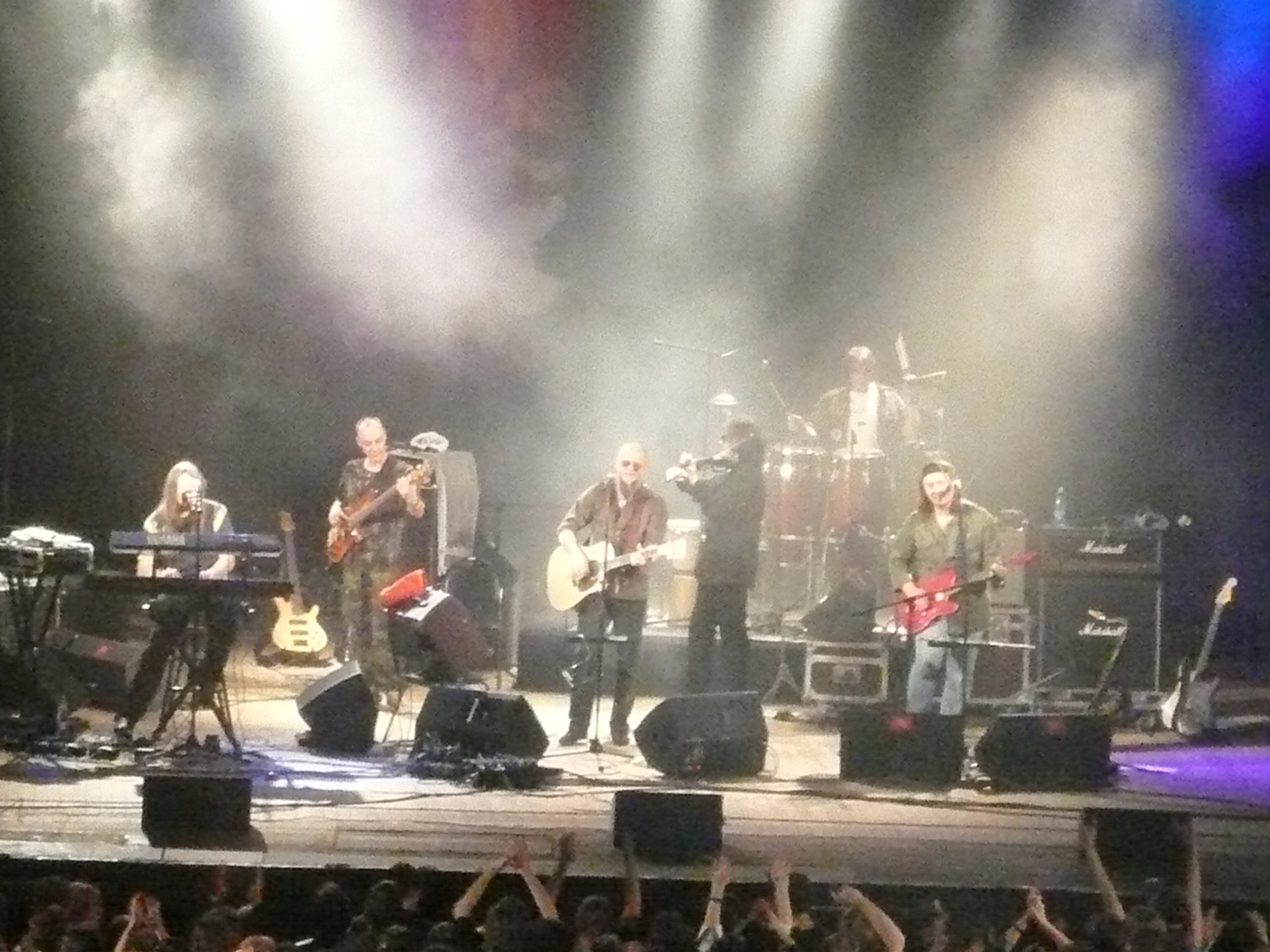 "Aquarium" rock band at concert. DK Lensoveta, St. Petersburg, Russia, December 22, 2007.Left to right: Boris Rubekin, Andrey Svetlov, Boris Grebenschikov, Andrey Surotdinov, Oleg Shavkunov, Igor Timofeev